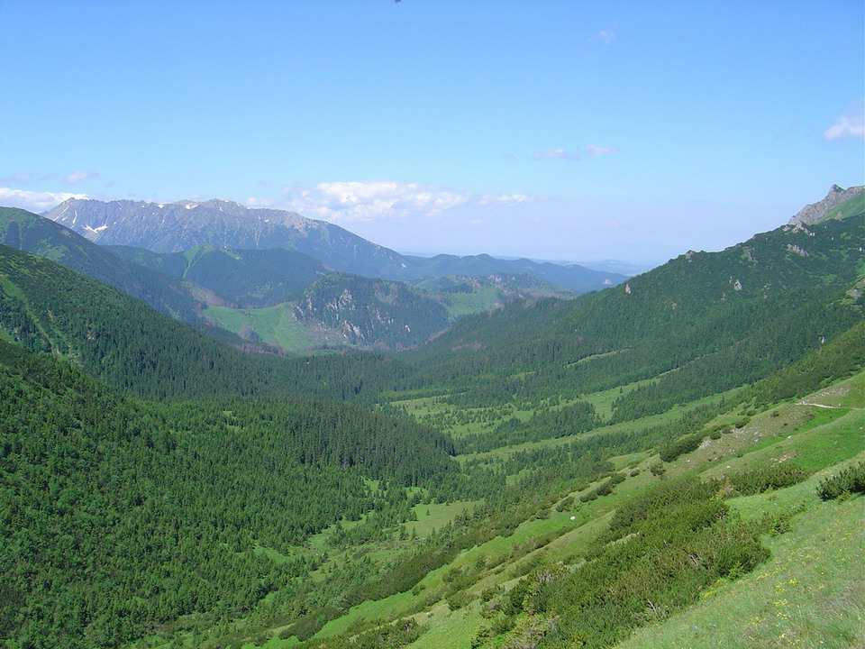 Zadne Medodoly from below Kopske sedlo.